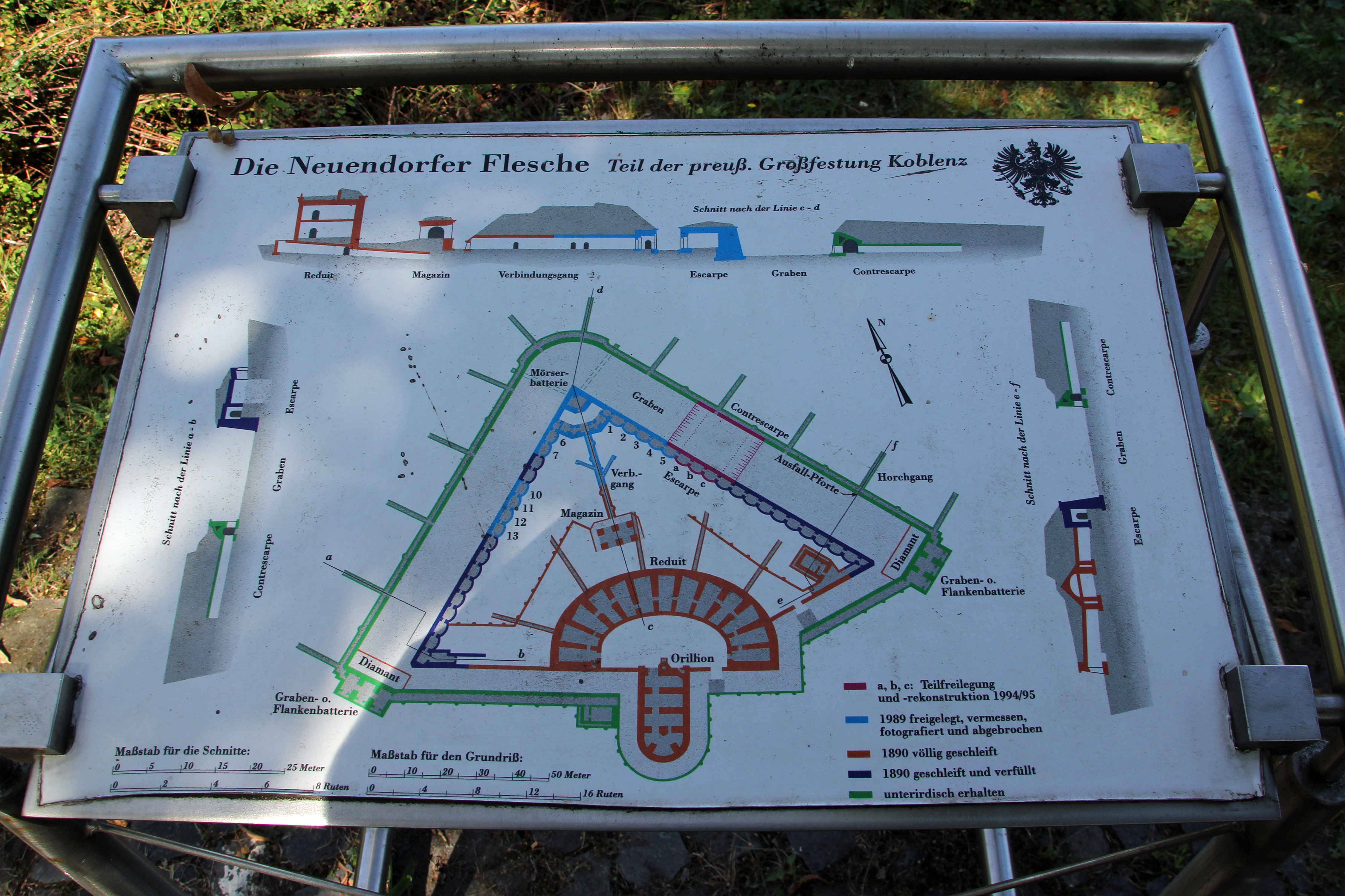 Neuendorfer Flesche in Koblenz